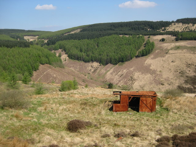 Railway carriage on top of mountain Guard's Van railway carriage on top of mountain Looking at subject from N51 37.255 W3 30.003 1362ft. There must have been a railway used here probably from a nearby mine; the spoil tip is adjacent to this photo. Access to this location via Clydach Vale country park ascent via obvious footpath on side of hill.